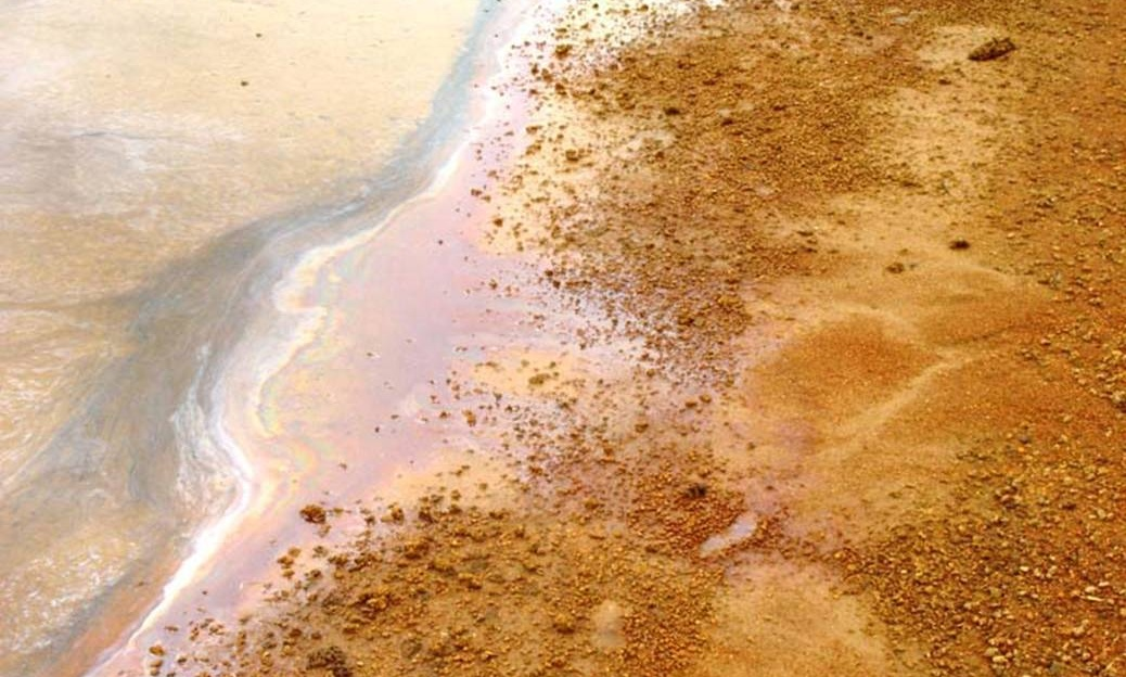 Bottom of a shrimp pond after the harvest (i.e., after the water has been drained and the shrimp have been collected) on a shrimp farm in Indonesia, showing a toxic sludge containing pyrite (FeS2). Contamination of a pool with Pyrite leads to stunted growth of the shrimp and increased mortality rates, and the cultivation of plankton (as food for the shrimp) is slowed down exponentially.